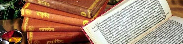 vedas